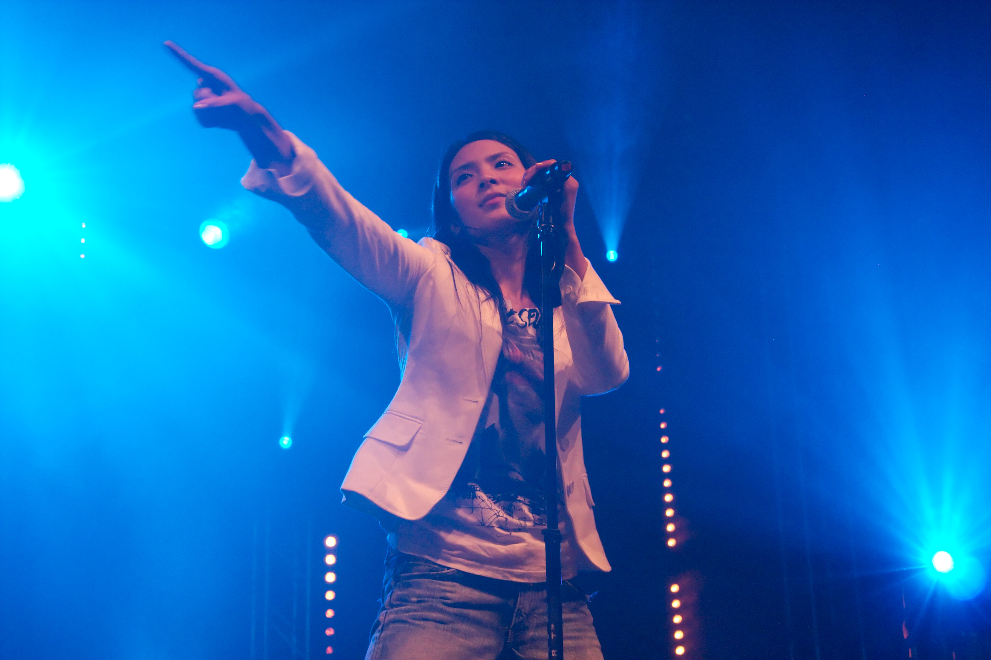 AKB48 live at Japan Expo 2009 (Paris, France).